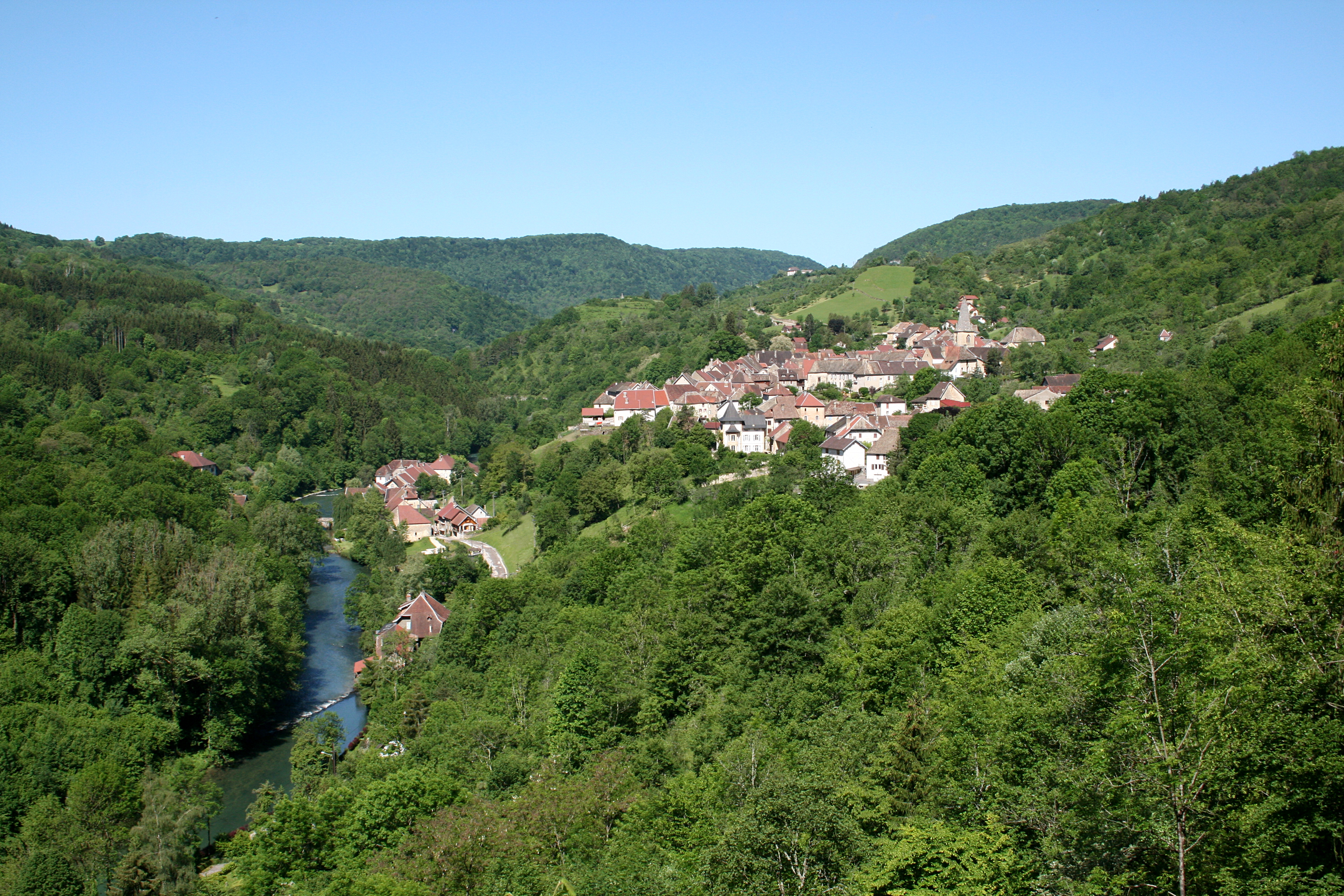 Mouthier-Haute-Pierre (Doubs - France), the Loue (river) and the village.